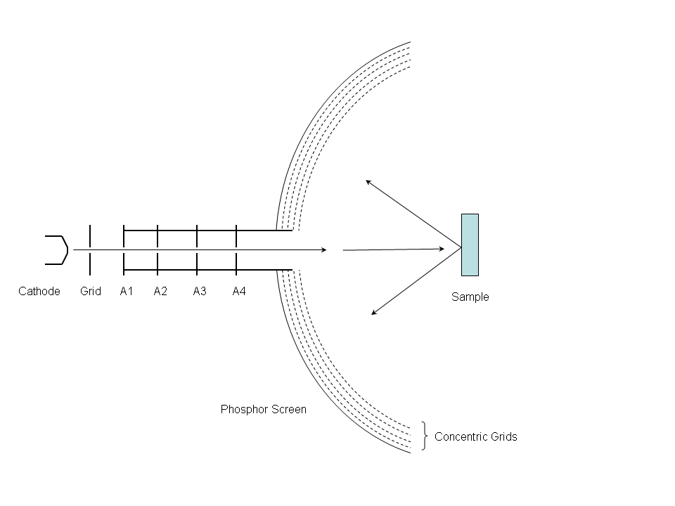 Low energy electron diffraction (LEED) Optics.